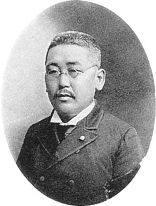 B. Kotō, Professor of Geology, Palaeontology & Mineralogy.